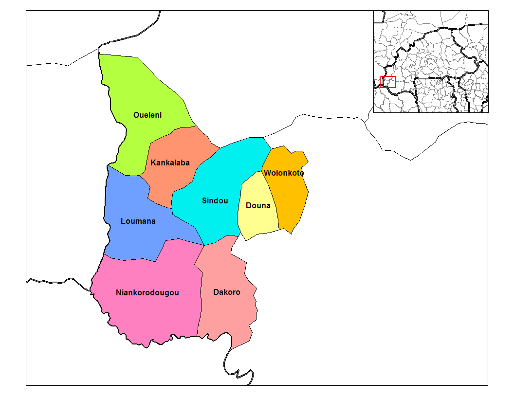 This map has been uploaded by Osiris fancy from to enable the Wikimedia Atlas of the World. Original uploader to was Rarelibra. Osiris fancy is not the creator of this map. Licensing information is below. Map of the departments of Leraba province in Burkina Faso. Created by Rarelibra 03:26, 30 September 2006 (UTC) for public domain use, using MapInfo Professional v8.5 and various mapping resources.